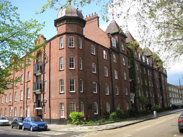 Stepney Green: Dunstan Houses, E1 Like 786319 on the other side of Stepney Green, Dunstan Houses was built with capital funded by affluent and philanthropic businessmen to replace older slum housing with modern but low cost accommodation for workers. Dunstan Houses was built by the East End Dwellings Company Limited and was completed in 1899.